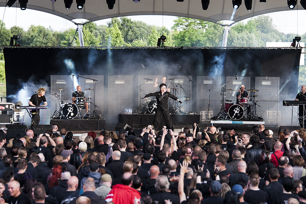 Project Pitchfork, photographed at the Blackfield Festival 2013 in Gelsenkirchen, Germany